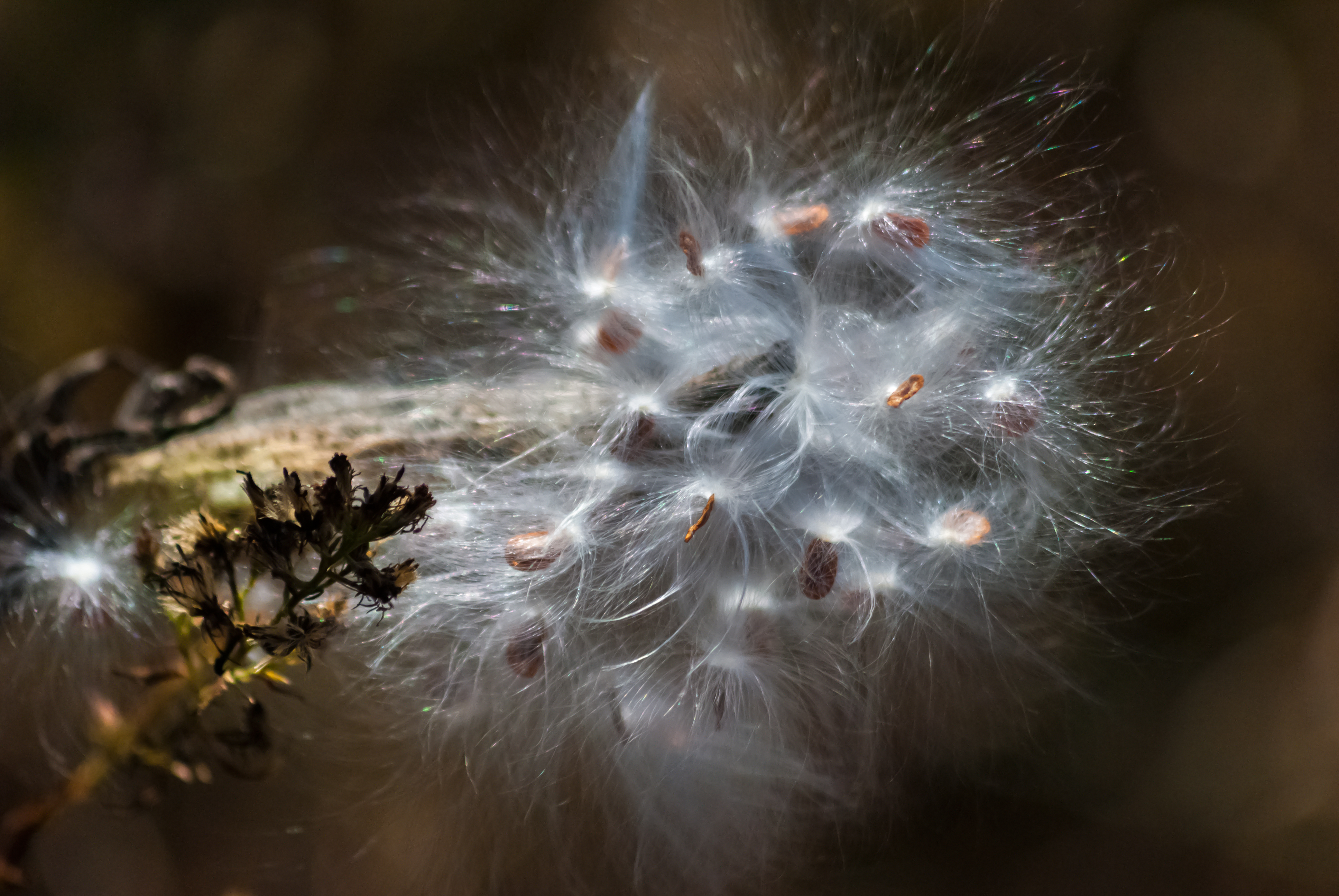 A close-up macro of Milkweed seed pod coma